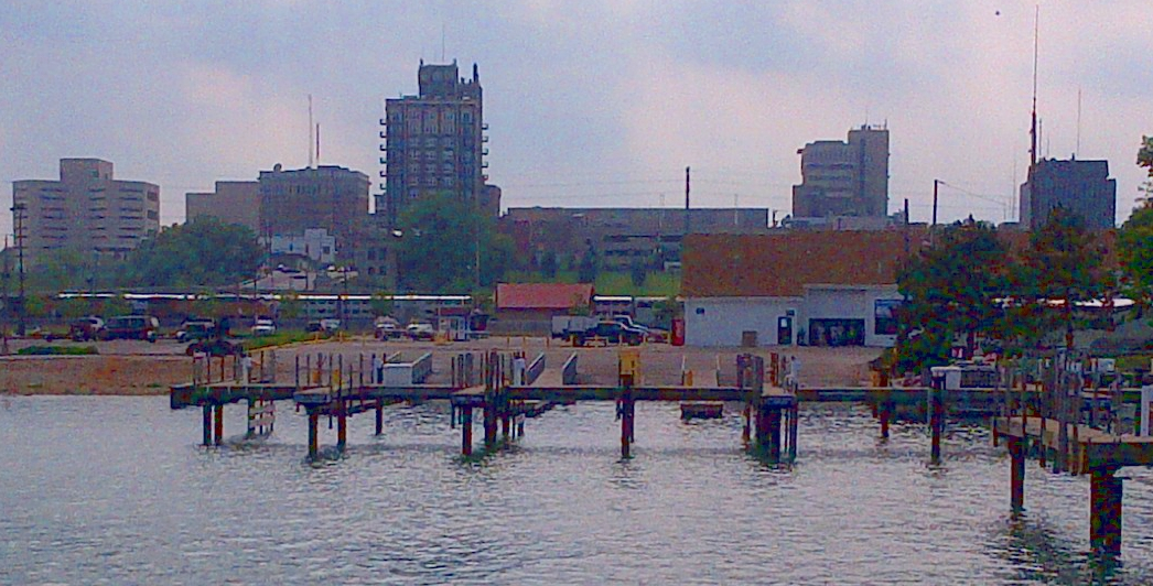 An image of Waukegan's skyline from the marina.